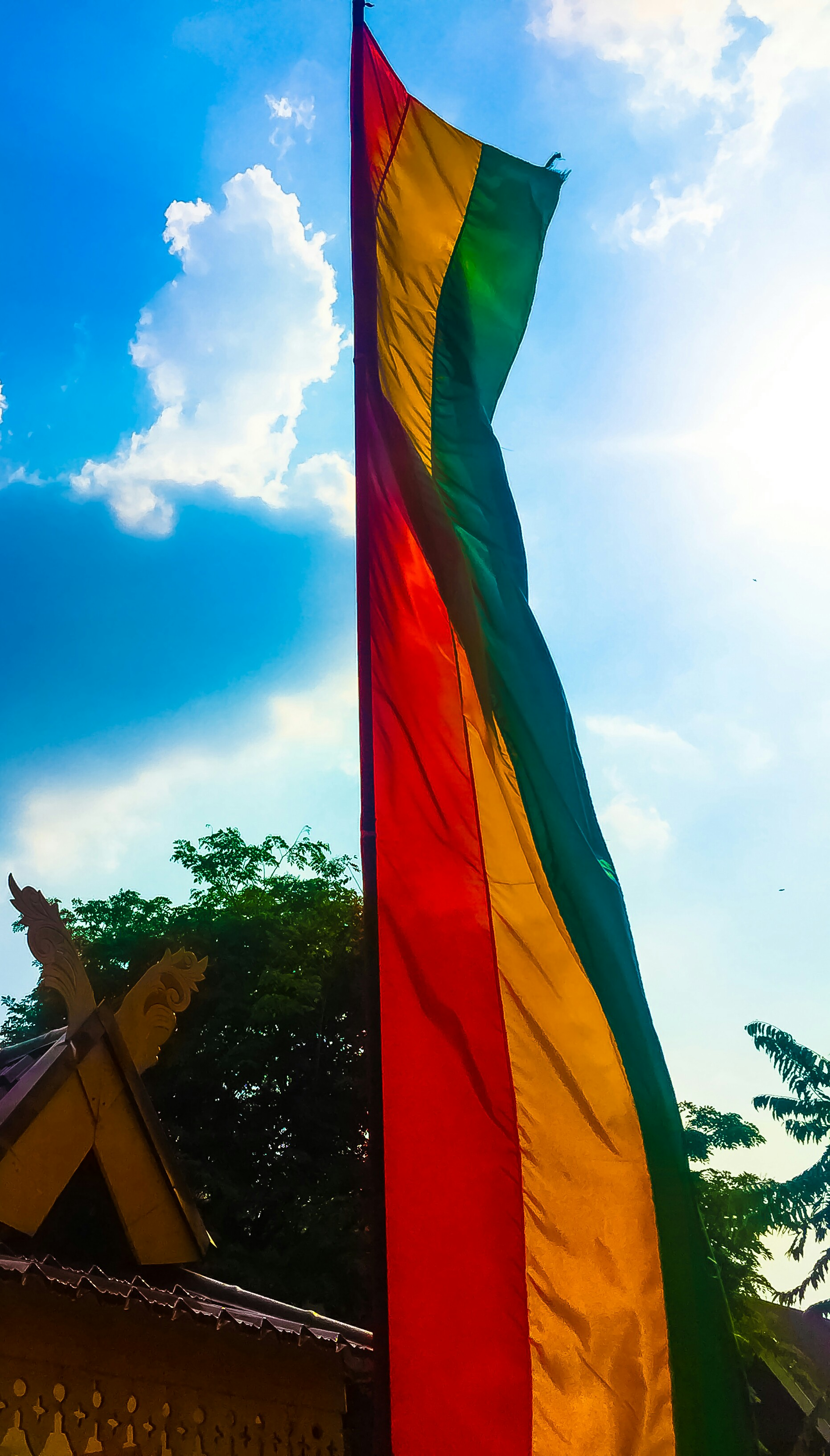 The Malay Tricolours as diplayed in Pekanbaru, Riau, Indonesia.